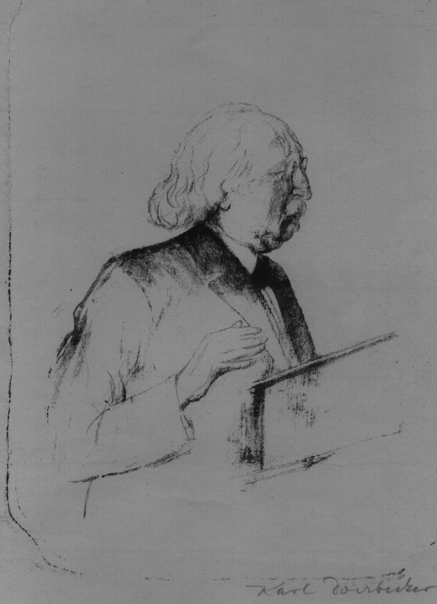 Hermann Cohen, lithography by Carl Doerbecker Image:434px-HCohen.jpg